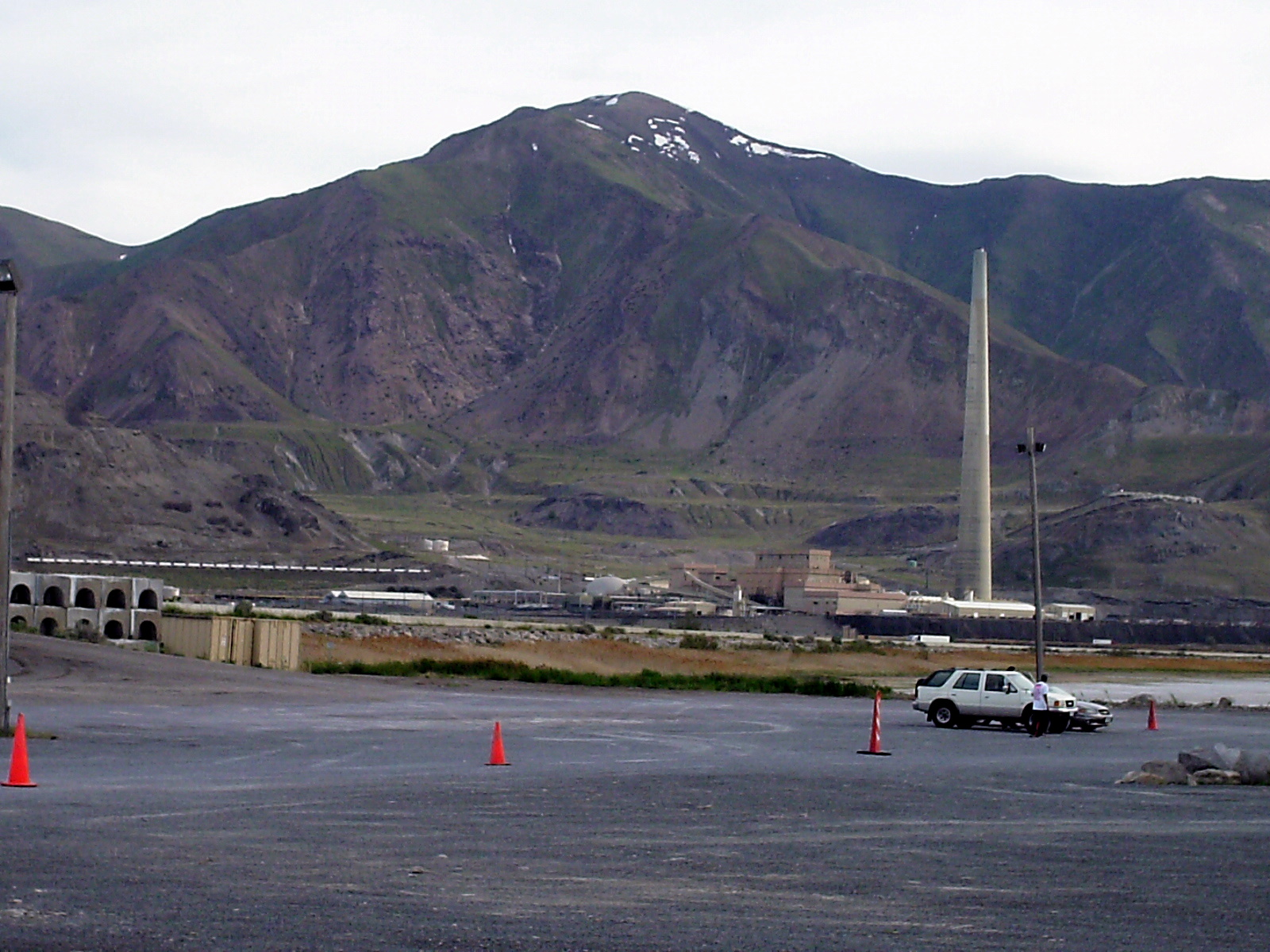 Photo of the Kennecott Smokestack taken from Saltair Beach on the Great Salt Lake.